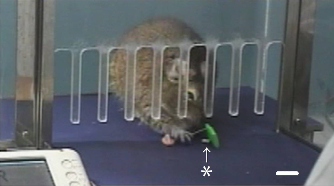 O. degus using a T-shaped rake as a hand tool to expand accessible spaces